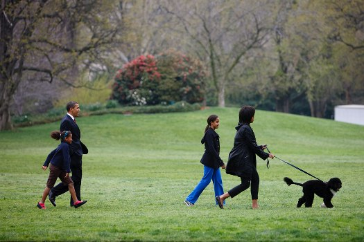 The First family and Bo, their new Portuguese water dog, walk on the South Lawn of the White House.